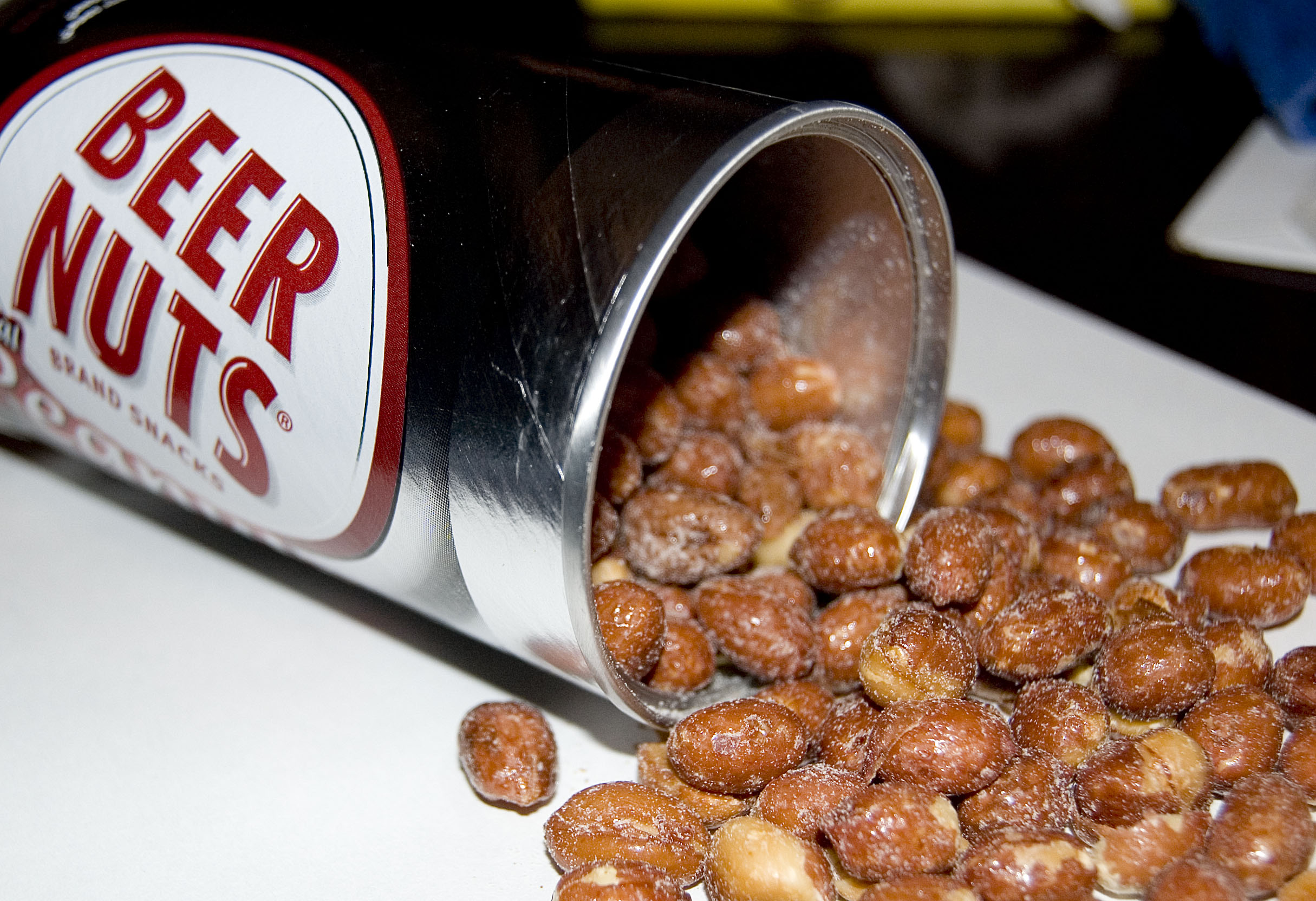 I took this photo of BEER NUTS on 4 January, 2007, specifically for uploading to Wikipedia. I hereby release it to the public domain.